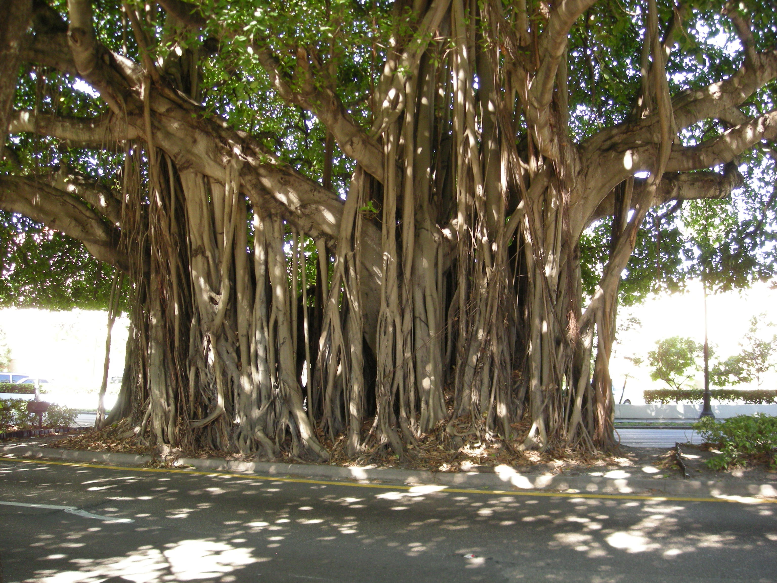 A Ficus Benghalensis Tree in Coral Gables, FL